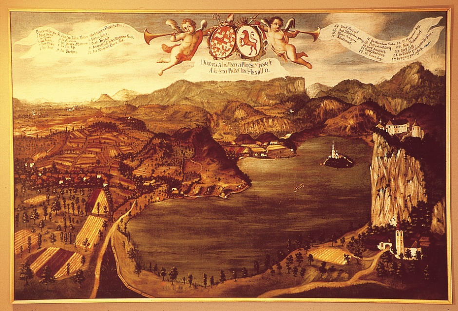 18th century etching showing Lake Bled and surrounding area with Bled Castle atop the hill on the right. Bled (German: Valdes) was a possession of the prince-bishops of Brixen for 800 years. The coat of arms is that of the ruling prince-bishop. The text underneath the coat of arms refers to the donation of German king Henry II who ceded Bled to Bishop Alguin of Brixen in the early 11th century.